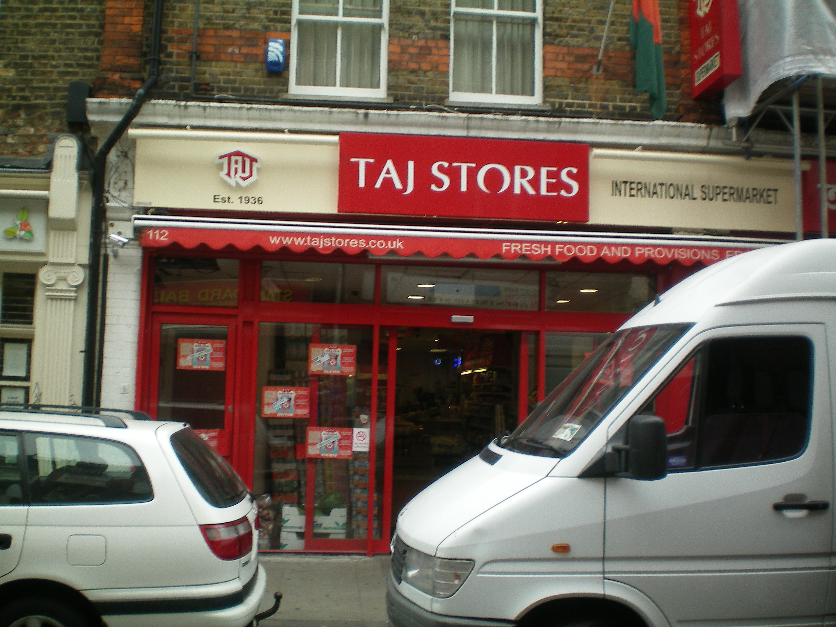 An image of a grocery store, Taj Stores. The largest manufacturer of Bangladeshi products and spices.